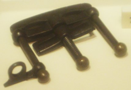 thumbscrew Photo taken at the National Museum of Scotland, Edinburgh